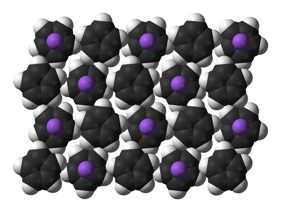 Space-filling model of part of the crystal structure of sodium cyclopentadienide, NaCp, Na[C5H5]. X-ray crystallographic data from Organometallics, 1997, 16 (17), pp 3855–3858.